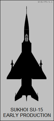 Plan-view silhouette of the early production Sukhoi Su-15